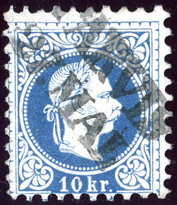 Austrian KK 5 kreuzer stamp, issue 1874, linear cancelled (Klein type aL) at TARVIS (Villach Bezirkshauptmannschaft).